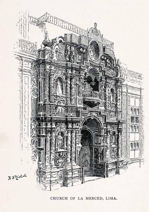 1891 Wood Engraving Lima Peru Basilica Nuestra Senora de la Merced.